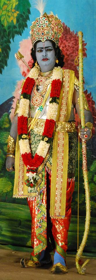 రాముడిగా